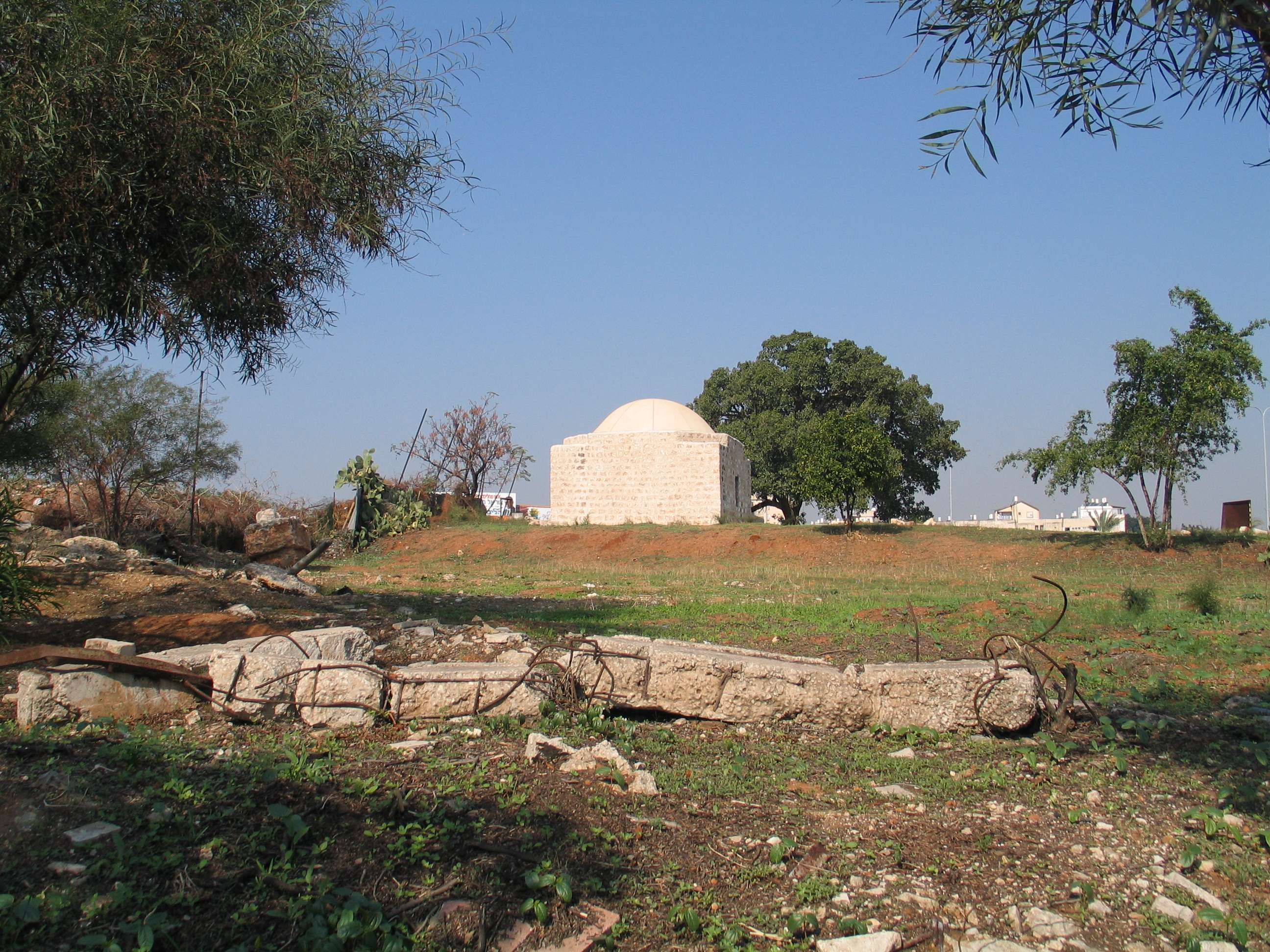 Azor, Israel.